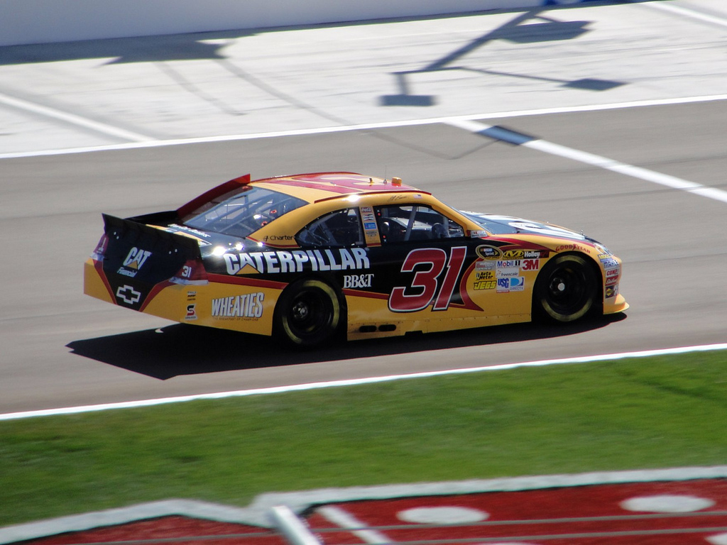 Jeff Burton in the #31 car on pit road at Las Vegas Motor Speedway